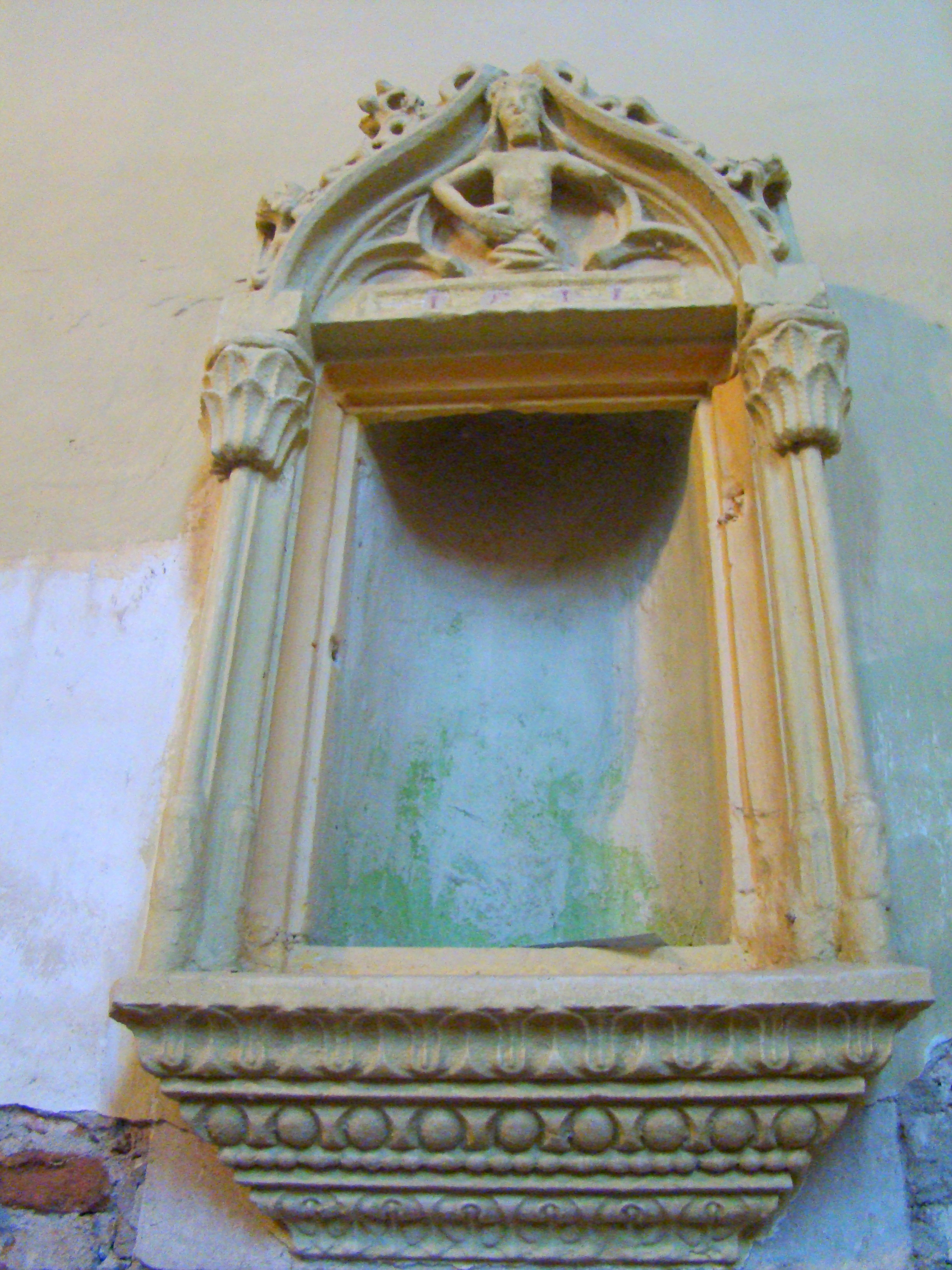 Lutheran church in Dupuș, Sibiu County, Romania